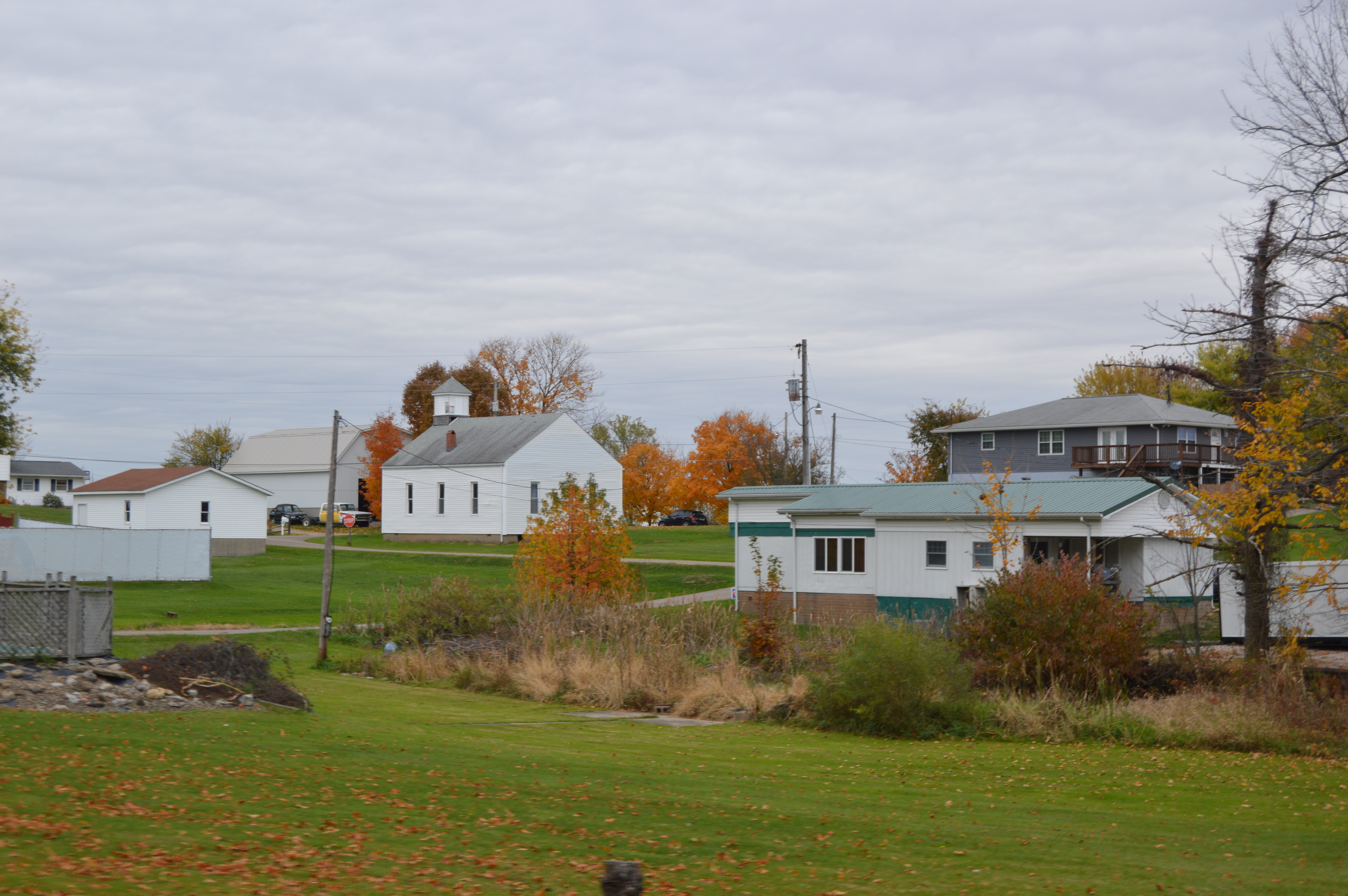 Looking northeast from State Route 145 over several small streets in Malaga, Ohio, United States.